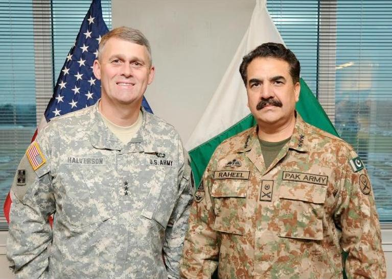 Lt. Gen. Halverson, deputy commanding general of U.S. Army Training and Doctrine Command, hosts a March 18 bilateral senior officer visit with Lt. Gen. Raheel Sharif, Pakistan inspector general for Training and Evaluation, at TRADOC headquarters at Fort Eustis. LTG Raheel led a delegation to gain a better understanding of how the U.S. Army is organized and resourced to manage service-level training programs and discuss common challenges within our armies. Their visit also includes a visit to the Joint Readiness Training Center.